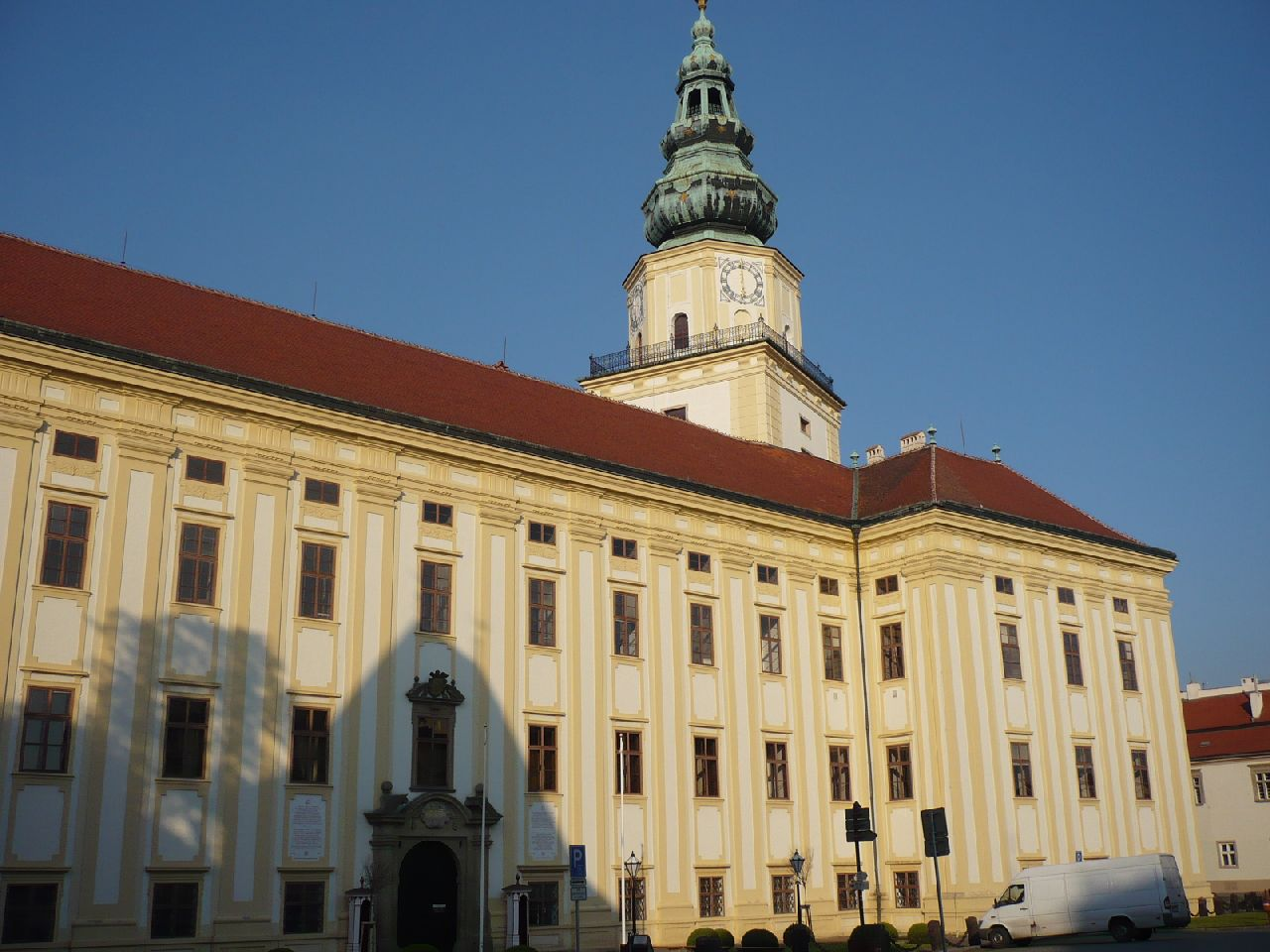 Kromeriz – Arcibishop palace